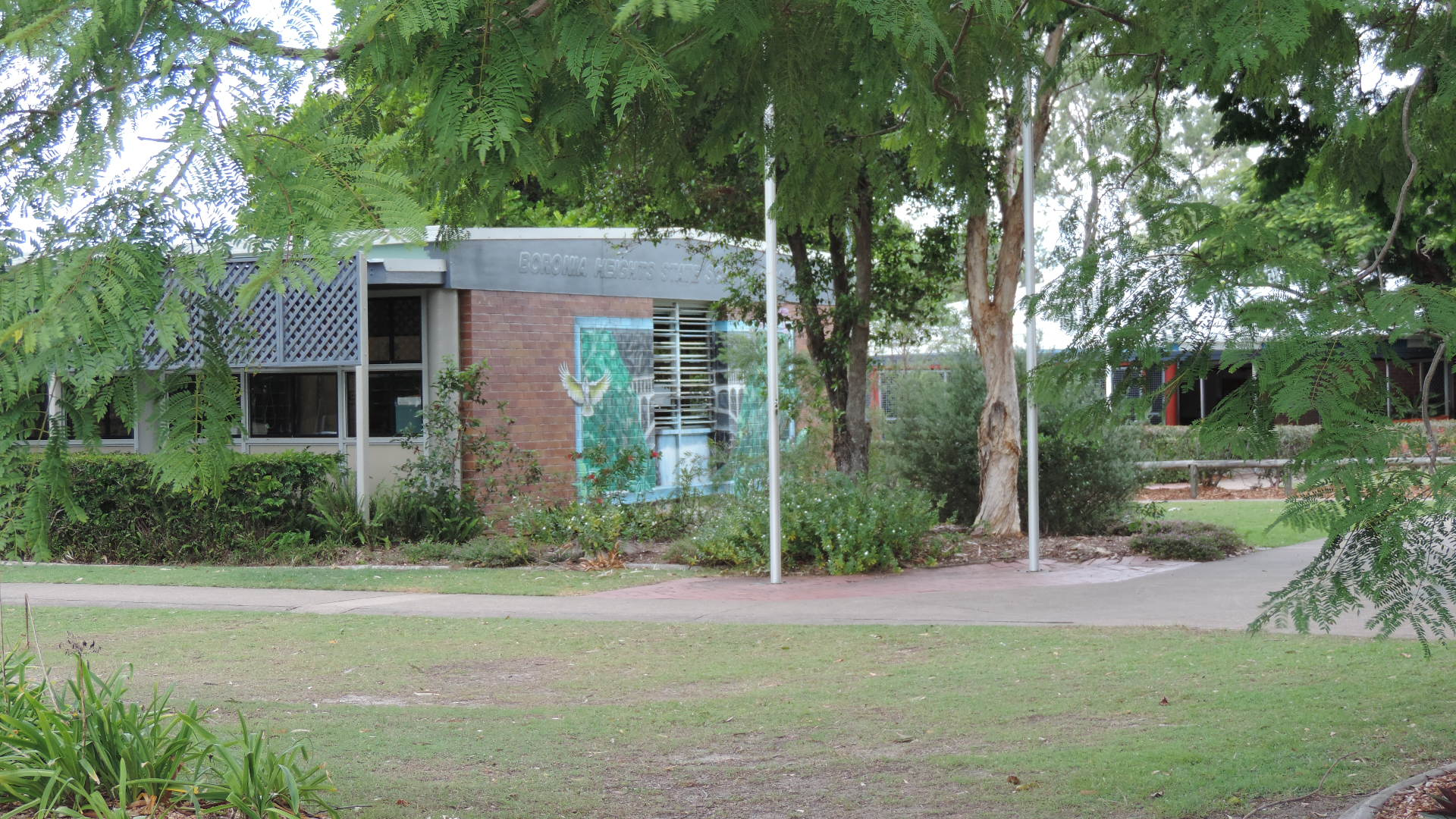 Boronia Heights State School building, 2014